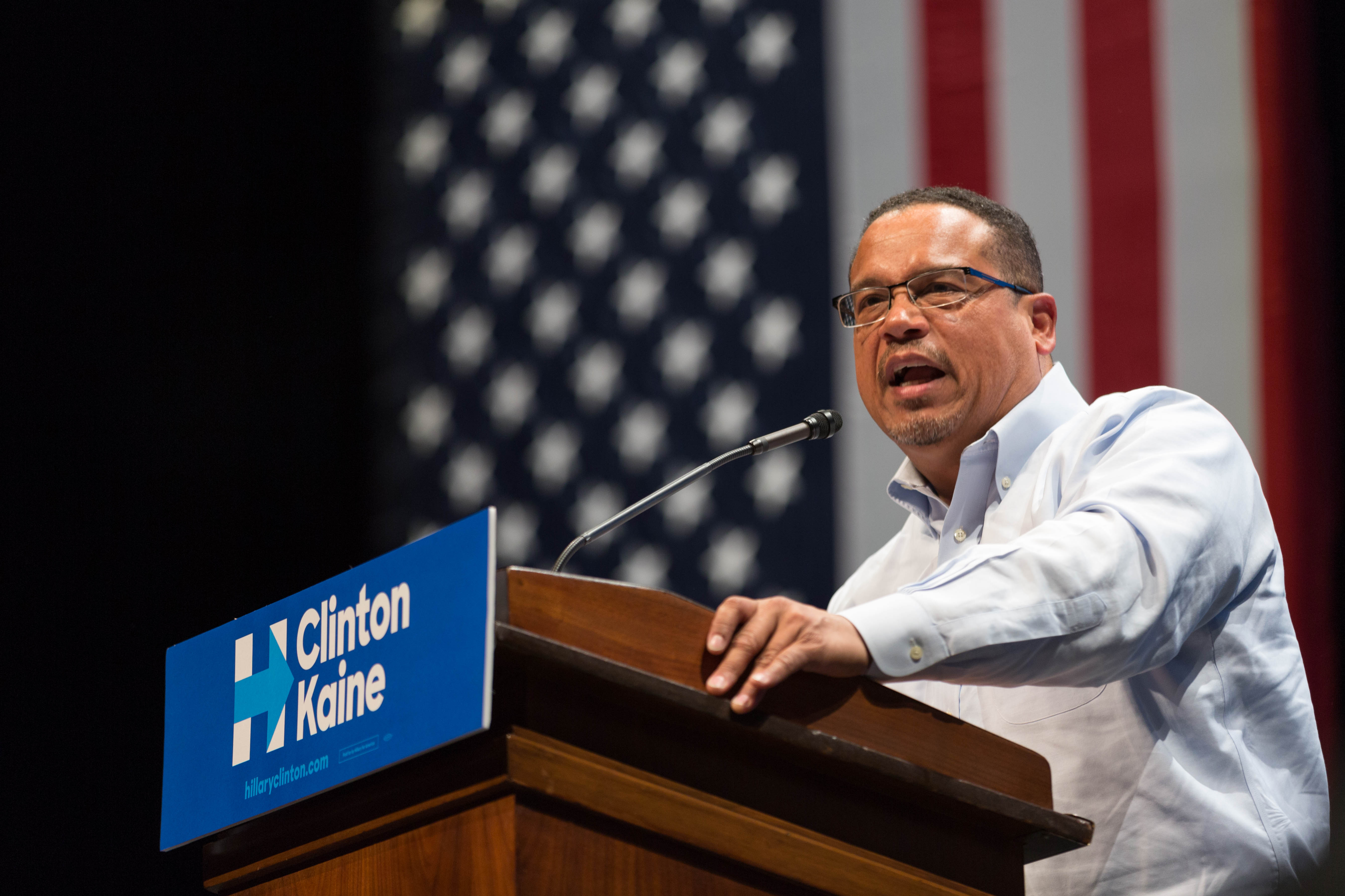 Representative of Minnesota's 5th District, Keith Ellison at a Hillary for MN event at the University of MN